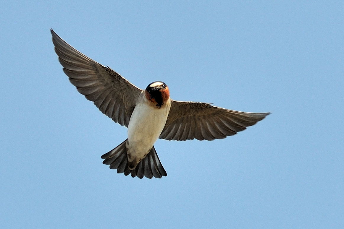 Cliff Swallow at the Palo Alto Baylands Nature Preserve, California, USA.